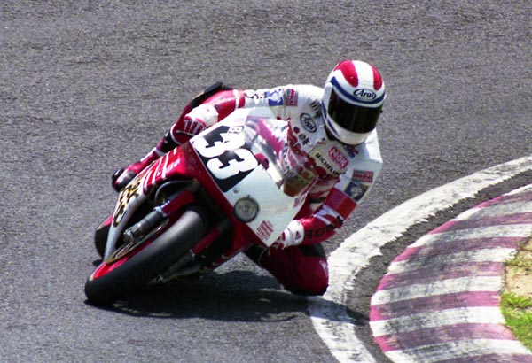 Freddie Spencer at 1992 Suzuka 8hours